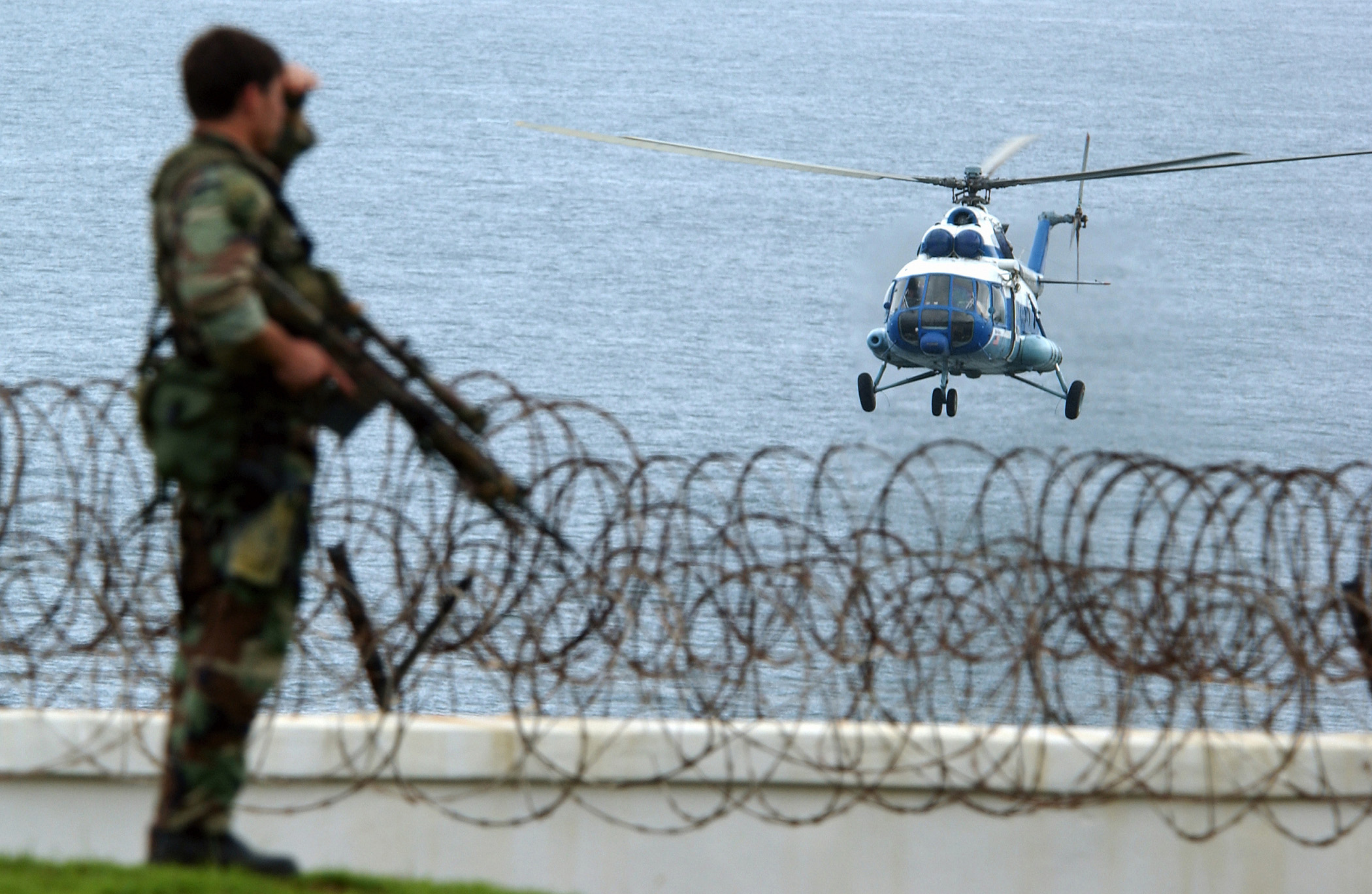 An armed US Military Special Operations Security Team Member observes a United Nations (UN) MI-8 Hip helicopter approaching the US Embassy in Monrovia, Liberia, during Operation SHINING EXPRESS. The US European Command (EUROCOM) is currently conducting the Operation to provide for the protection of American citizens in Liberia and the region, and to be prepared to aid in any potential evacuation of its citizens.